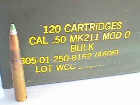 Image of a Mk211 Mod 0 50 BMG HEIAP round of ammunition. Note the green over white painted tip. This round pictured is made by the WCC in the USA with a projectile that is likely produced by Nammo-Raufoss Company of Norway.